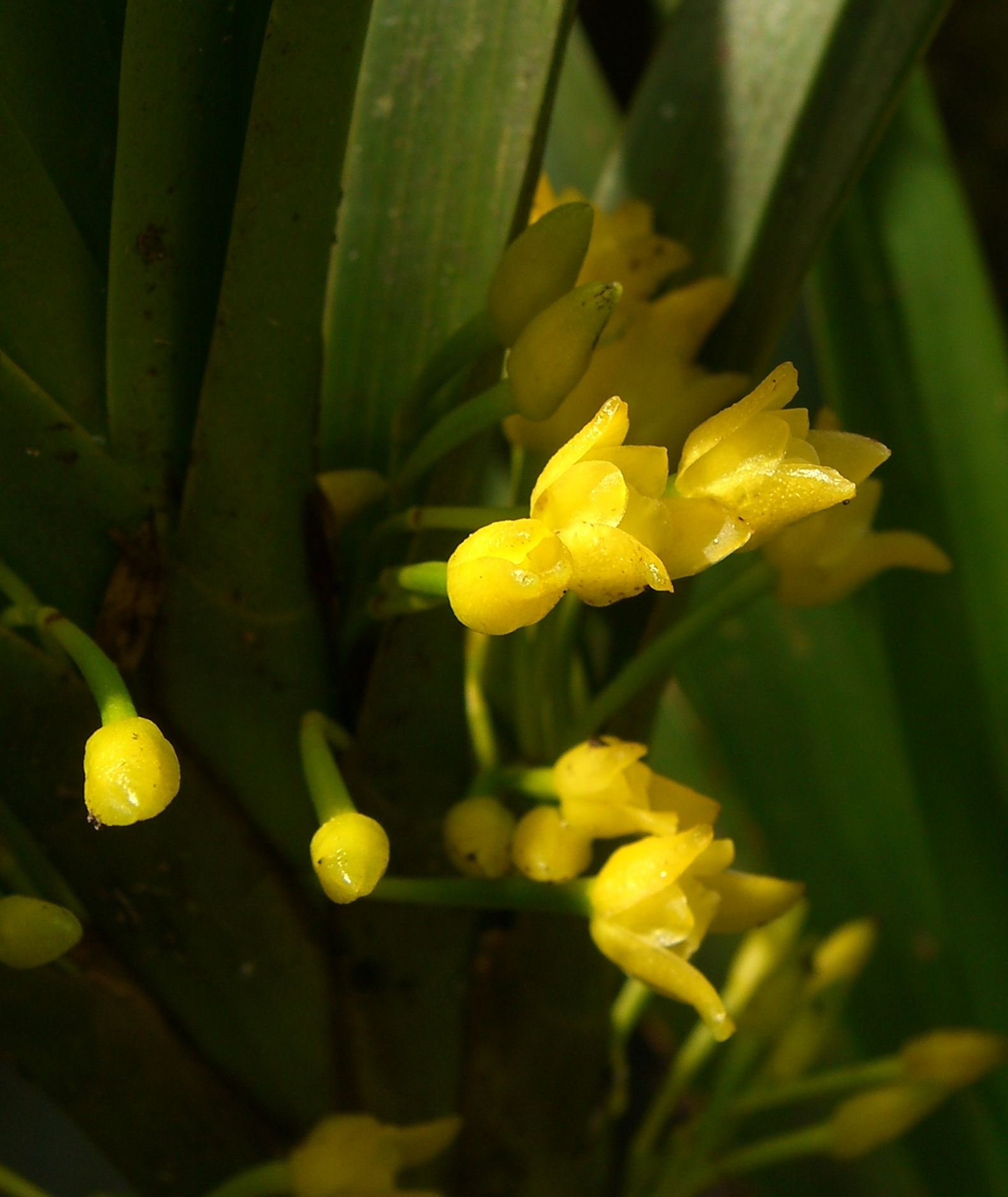 Please report references to .